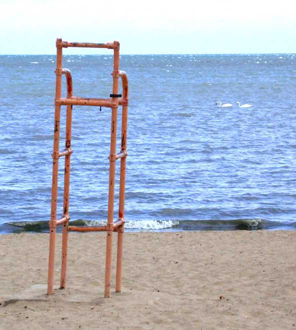 Public beach in St. Clair Shores (taken Sept. 28, 2004) © 2004 Matthew Trump